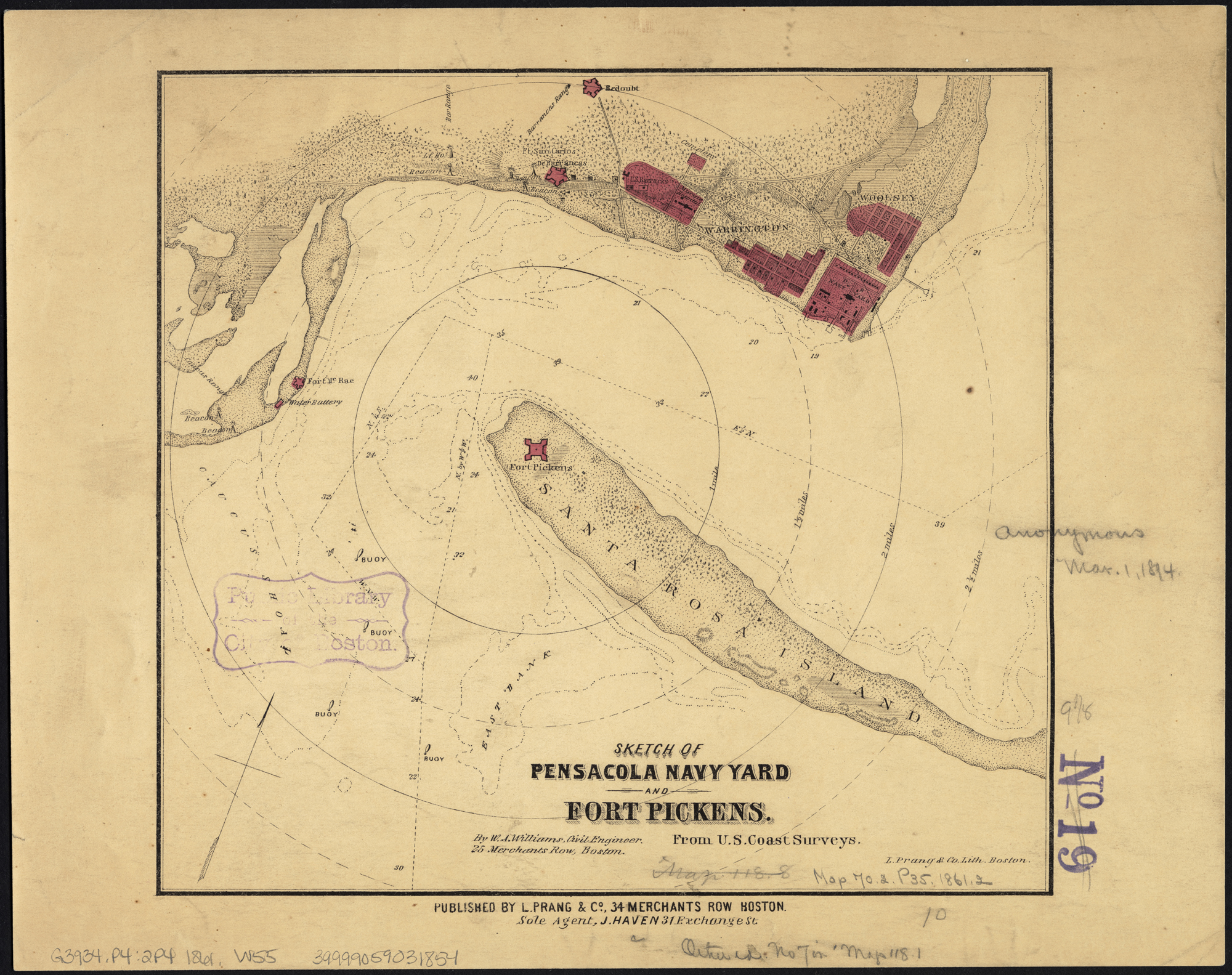 Zoom into this map at . Author: Williams, W. A. Publisher: L. Prang & Co. Date: 1861 Location: Fort Pickens (Fla.), Pensacola Navy Yard (Fla.) Dimension: 25x26cm Scale: ca. 1:31,000 Call Number: G3934.P4:2P4 1861 .W55